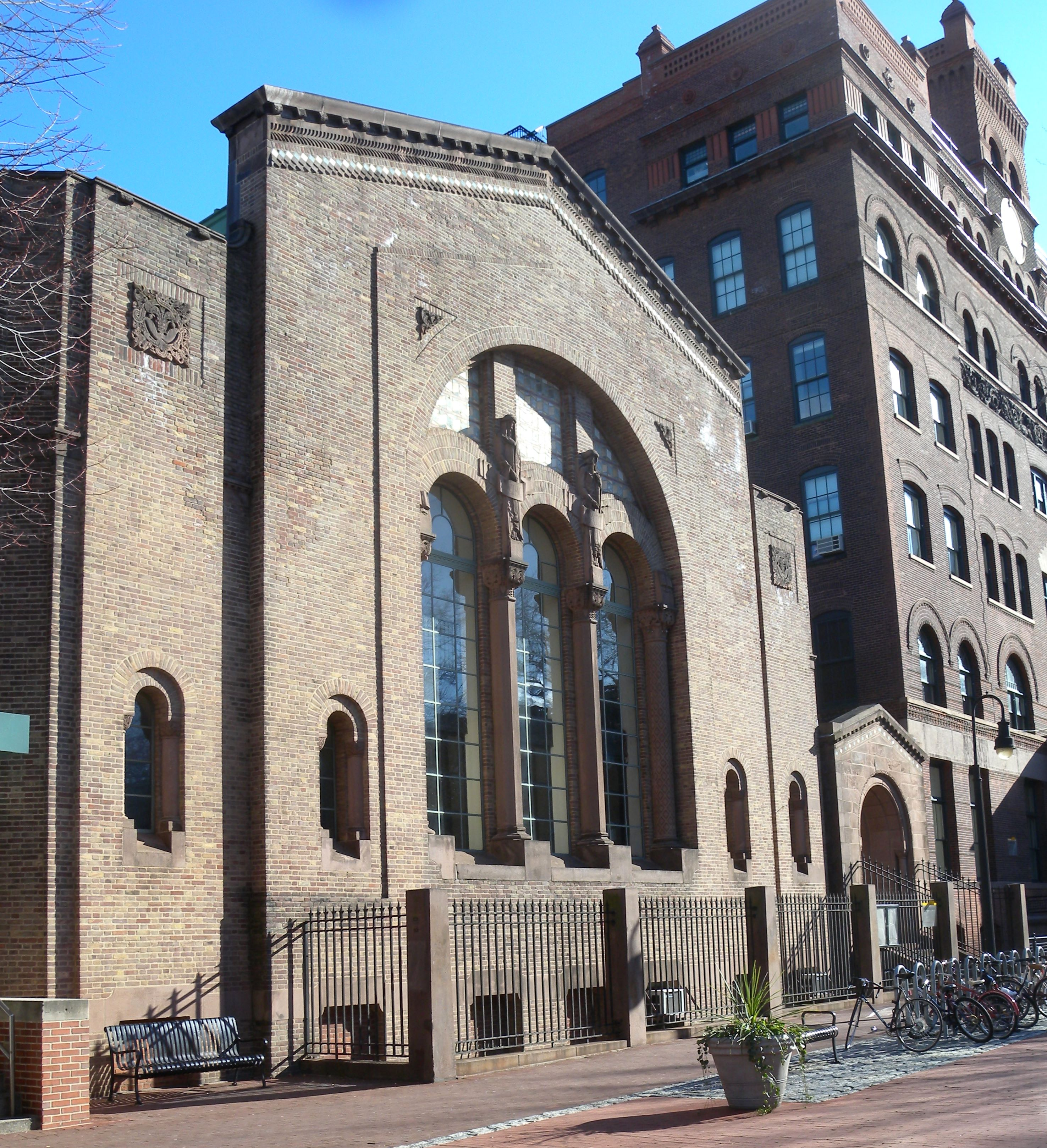 Looking southeast at Memorial Hall on a sunny miday.